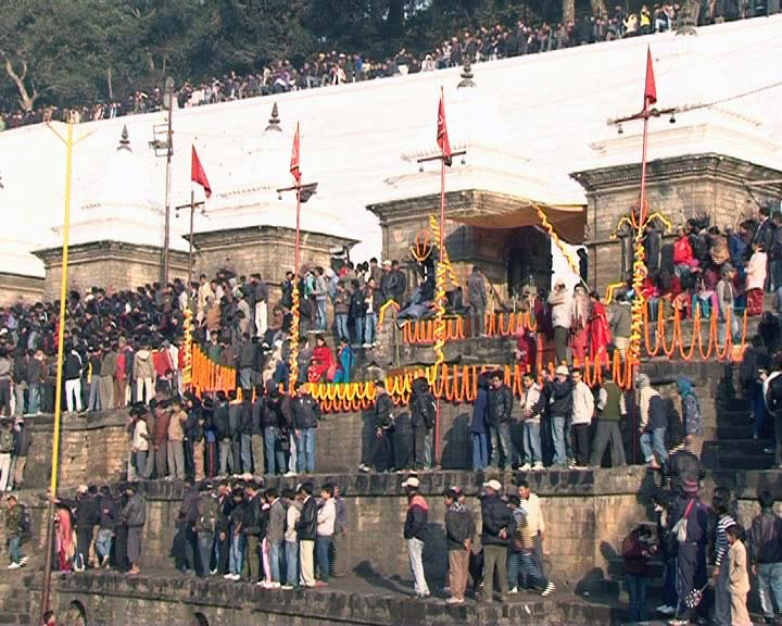 Worshipers